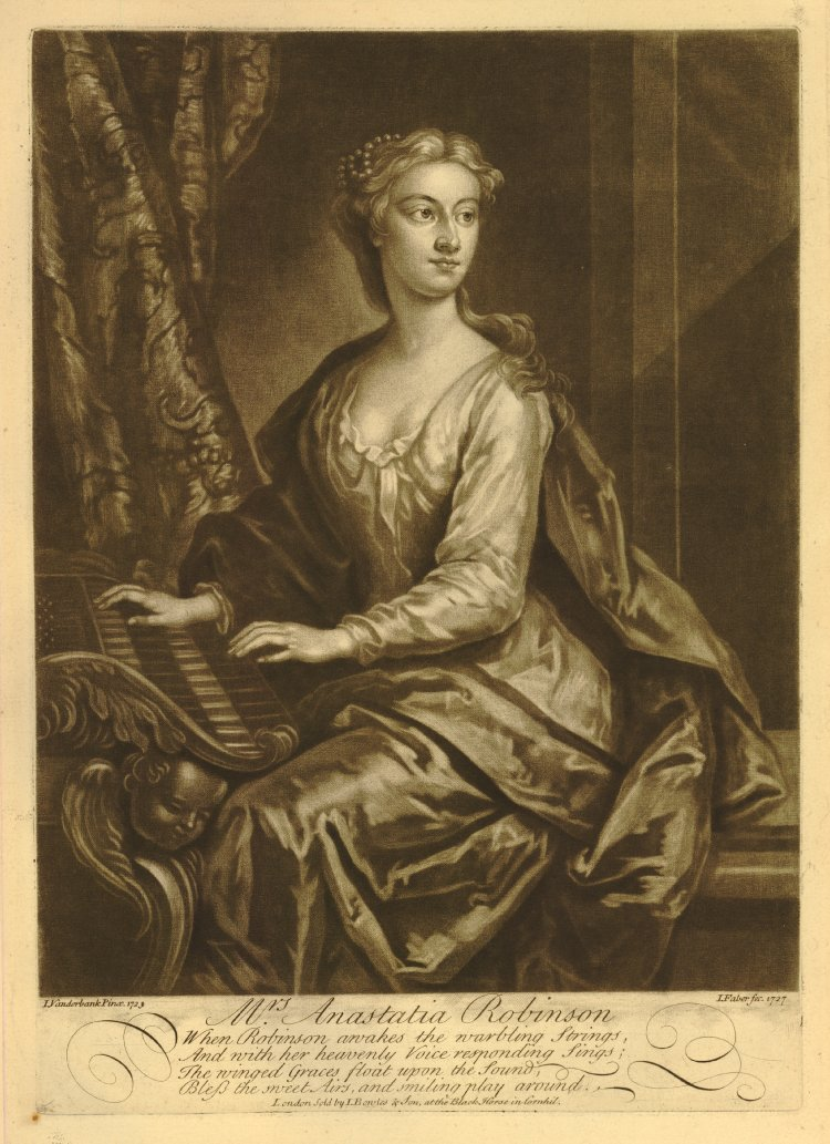 Portrait of Anastasia Robinson seated at the harpischord by John the Faber the Younger after the 1723 oil painting by John Vanderbank. The inscription reads: "When Robinson awakes the warbling strings, And with her heavenly voice responding sings, Thw winged graces float upon the sound, Bless the sweet airs, and smiling play around." London, sold by J. Bowles & Son at the Black Horse in Cornhill.